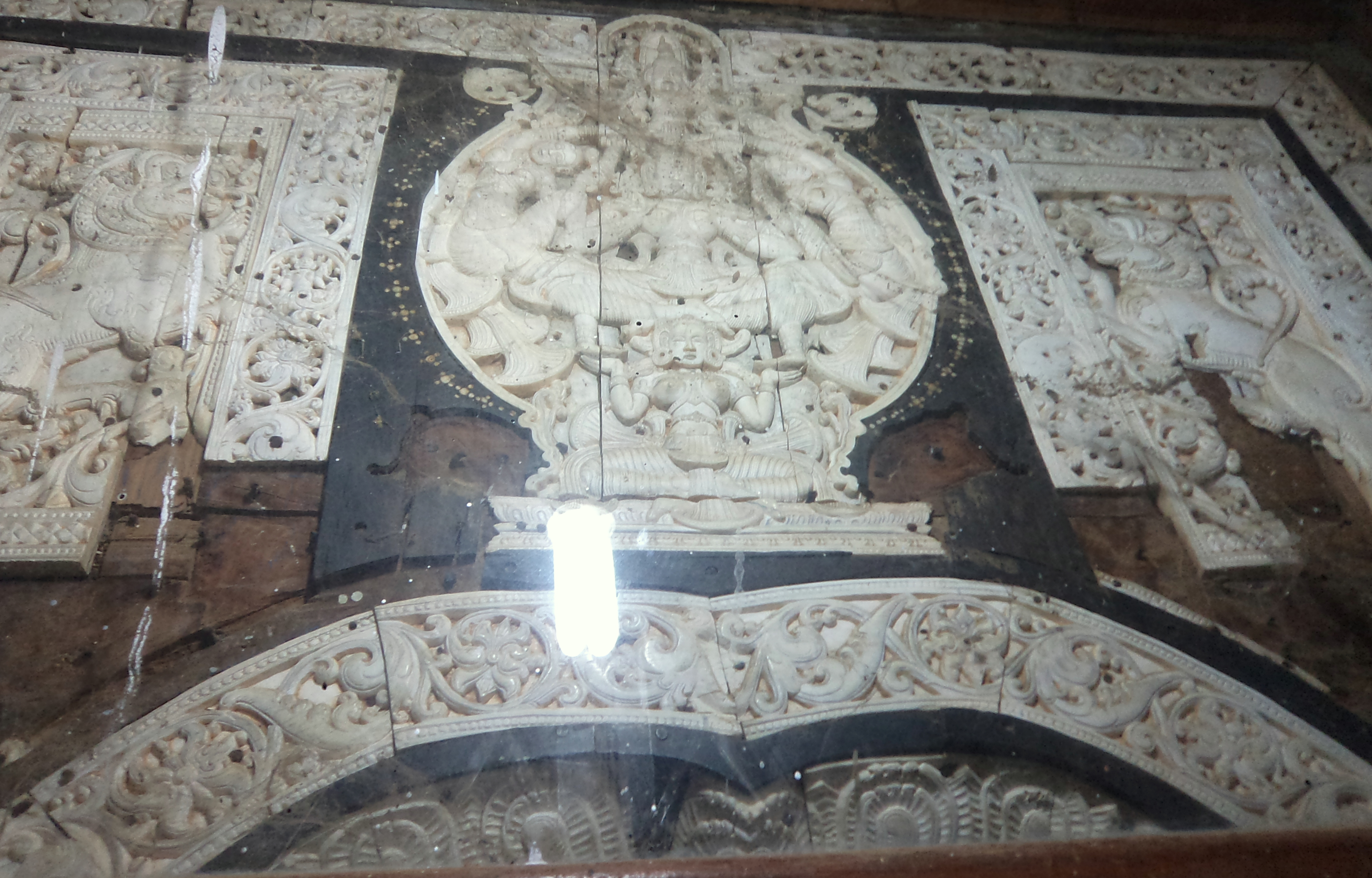 The Pancha Nari Ghataya carved out of ivory, located at Maha Viharaya, Ridi Viharaya, Kurunegala